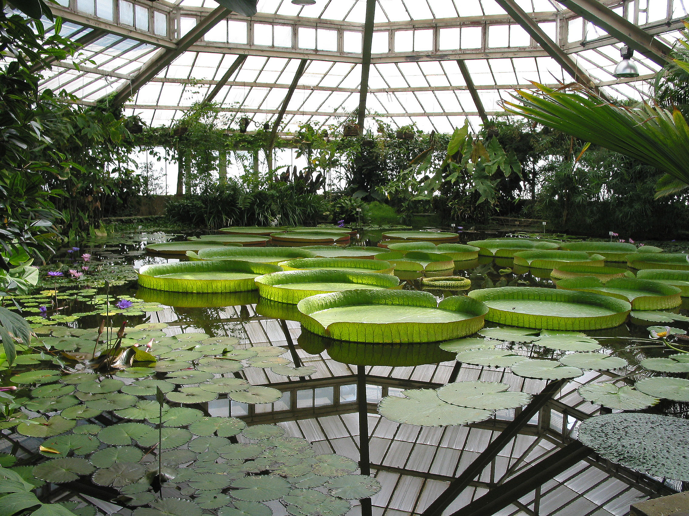 Meise (Belgium), National Garden of Belgium - Plant Palace - The Victoria House.